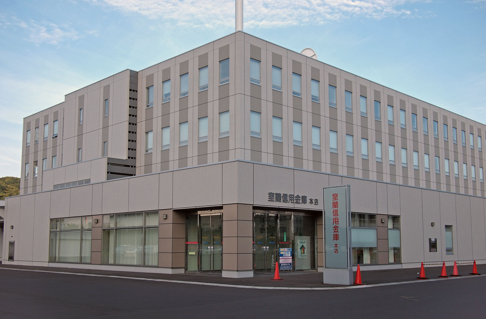 Muroran Shinkin Bank, Muroran, Hokkaido, Japan